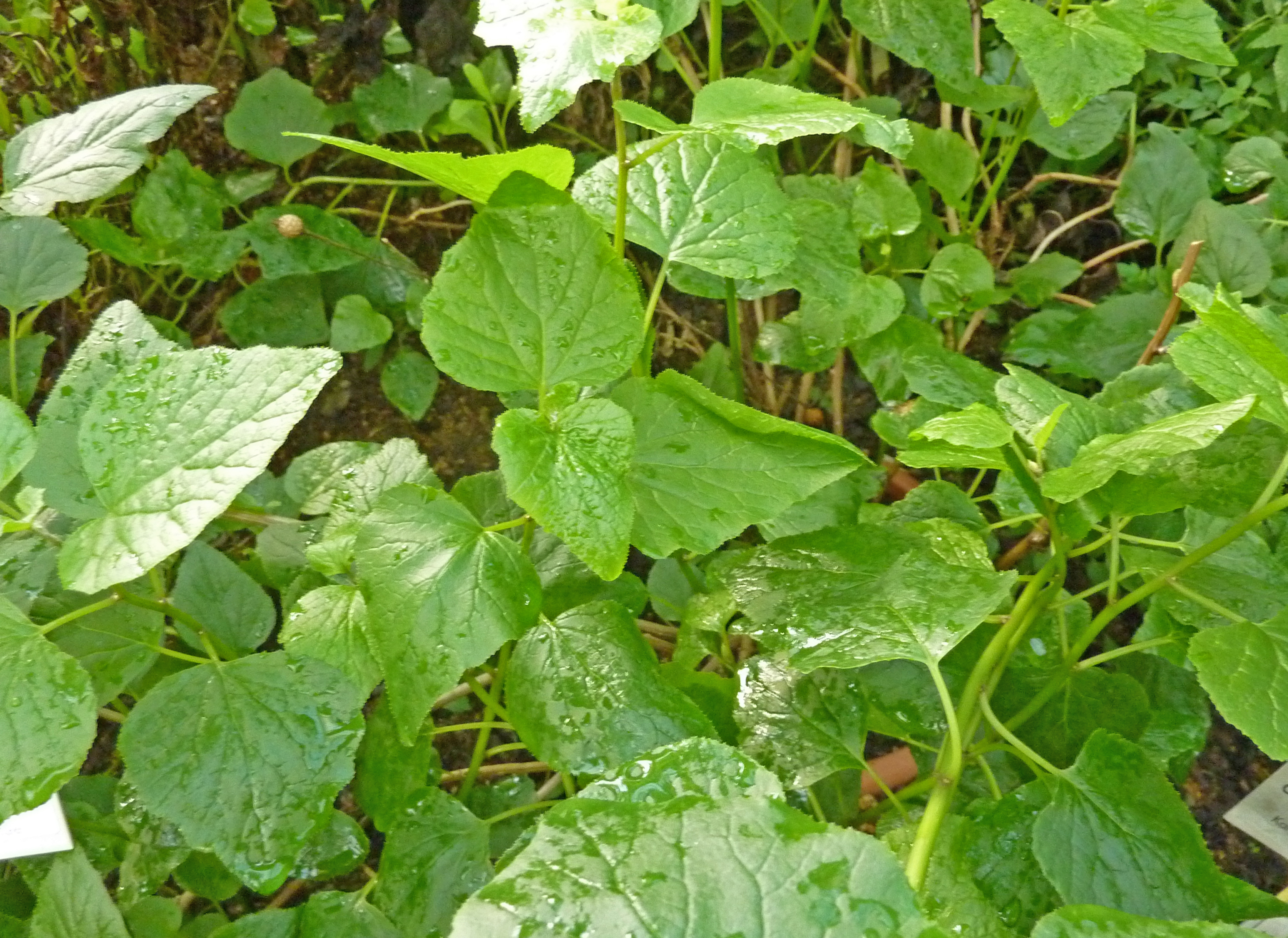 Hansen's cineraria, Pericallis hansenii, in the Botanical Garden, Berlin. This plant is indigenous to the island of Gomera.